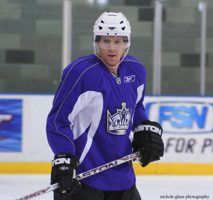 Brian Willsie, ice hockey player, in 2007